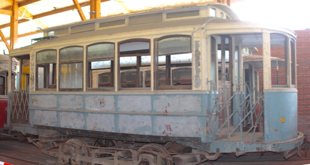 Body of a Brill build tram. It's on the truck originating of a Coimbra tram, but not fixed to it.